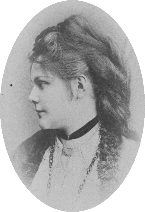 Sophie Menter, german pianist and musical educator